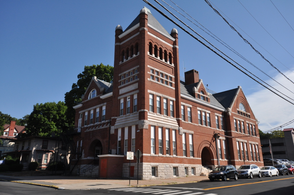 Old Rockville High School and East School (now the school administration building), Rockville (Vernon), Connecticut.